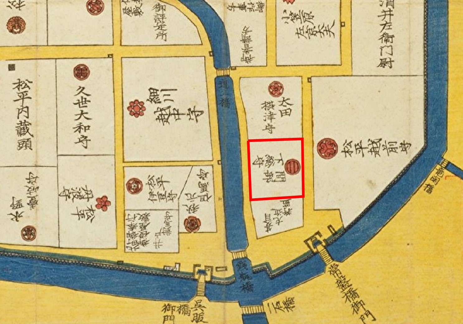 REsidence of Manabe clan at Edo